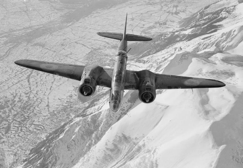 Royal Air Force- Italy, the Balkans and South East Europe, 1942-1945. A Martin Baltimore Mark IV of No. 223 Squadron RAF flying over the Abruzzan Appenines after bombing a a road junction between Avezzano and Popoli on the Rome-Pescara highway, during attacks by medium bombers of the Desert Air Force on enemy supply and reinforcement routes following the Allied landings at Anzio, (Operation SHINGLE).